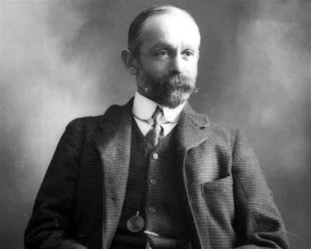 George Herbert Strutt (1854-1928), was a cotton mill owner and philanthropist from Makeney and Belper in Derbyshire. He was a descendant of Jedediah Strutt